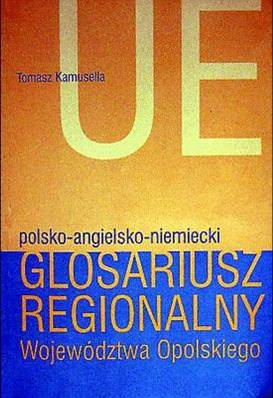 Tomasz Kamusella. 2004.Polsko-angielsko-niemiecki glosariusz regionalny Województwa Opolskiego [The Polish-English-German Glossary of the Region of Opole]. Opole, Poland: Oficyna Piastowska. ISBN: 83-89357-18-6. The entire run of the publication (2,000 copies), on the order of the Marshal's Office (Urząd Marszałkowski, or the Self-Governmental Regional Authority), was destroyed. Two copies of the book deposited in the Polish National Library (Biblioteka Narodowa), also on the order of the Marshal's Office were made inaccessible to readers.